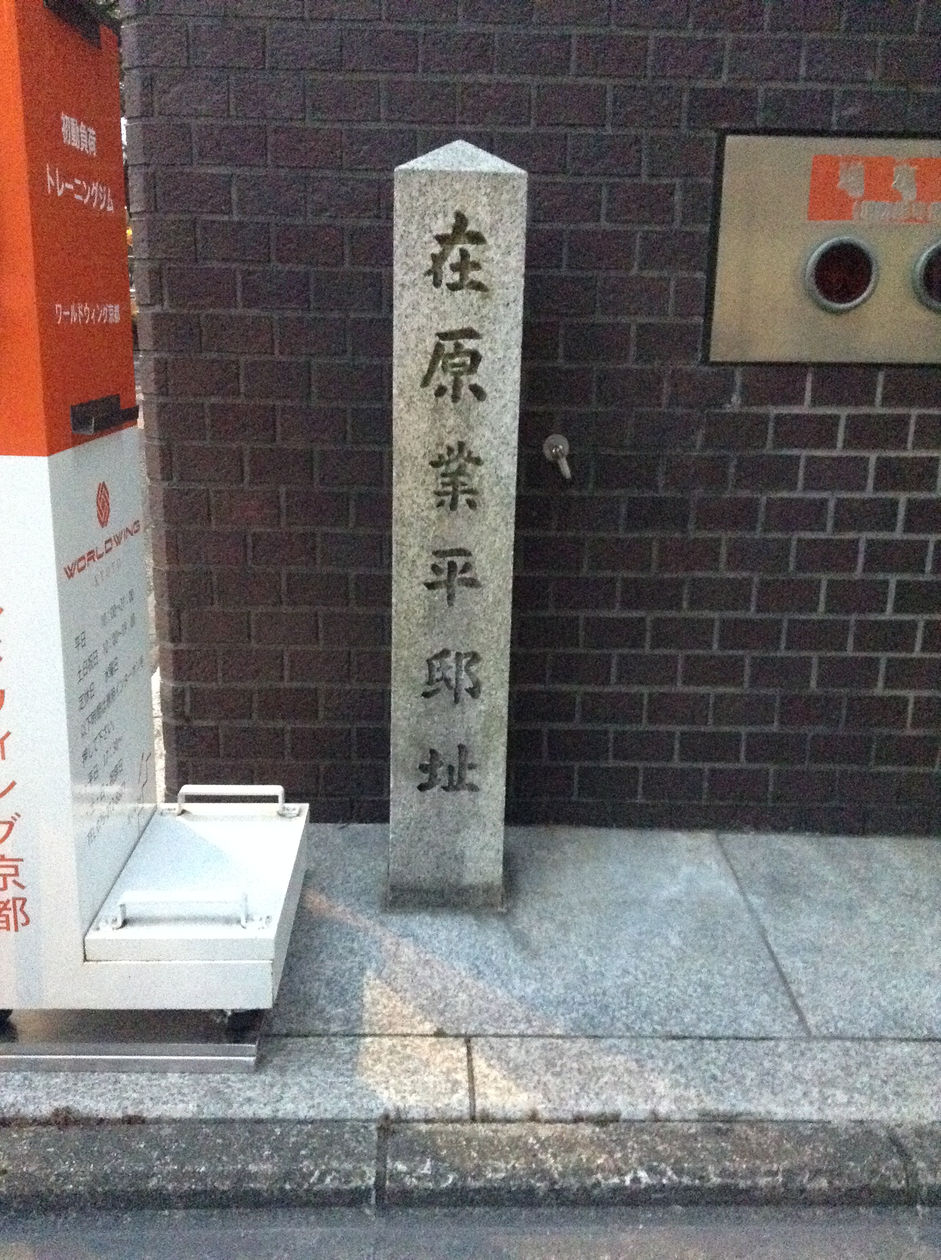 The reputed site of the Japanese poet Ariwara no Narihira's residence, near Karasuma-Oike intersection in Kyoto.